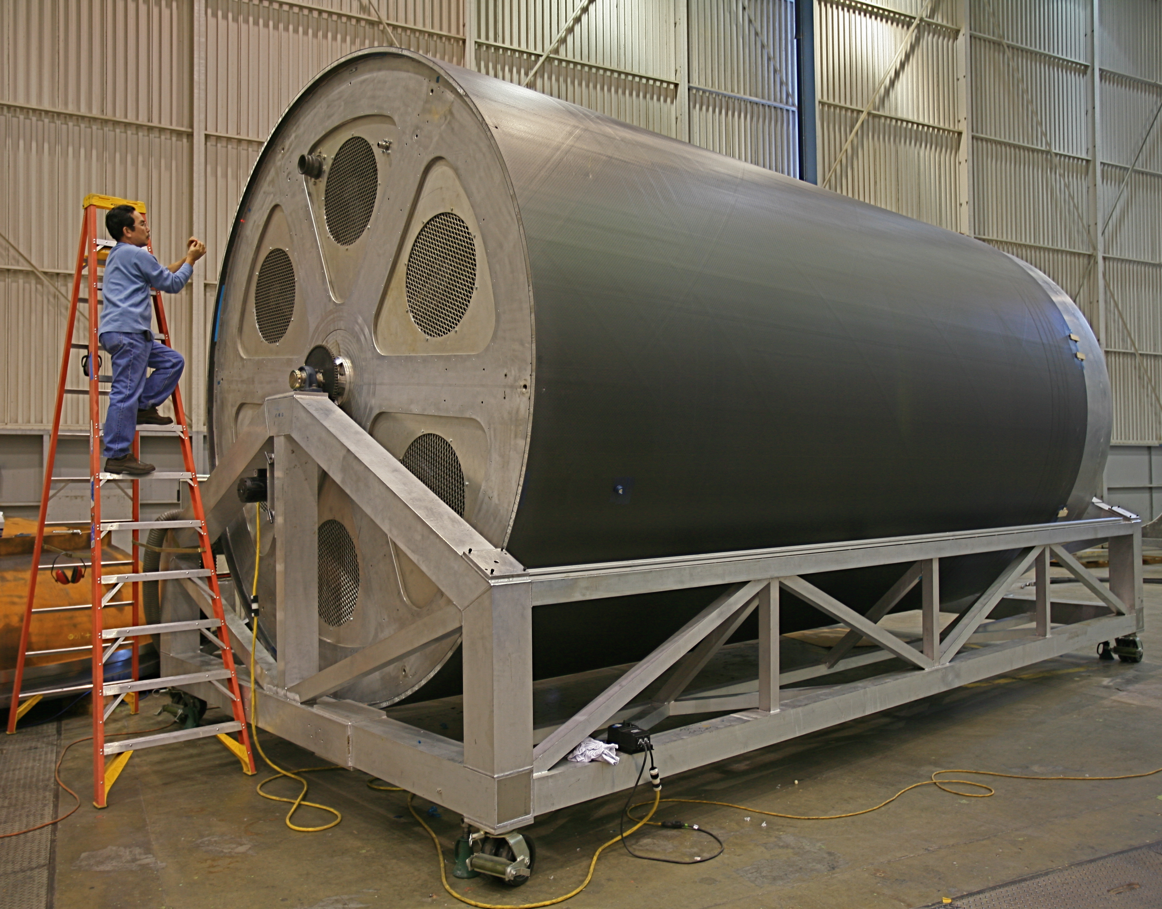 That's one big carbon fiber layup over aluminum. It connects the booster stage to the upper stage. Big pneumatic pushers separate the stages mid flight. Mystery laser finger… must be alien technology.